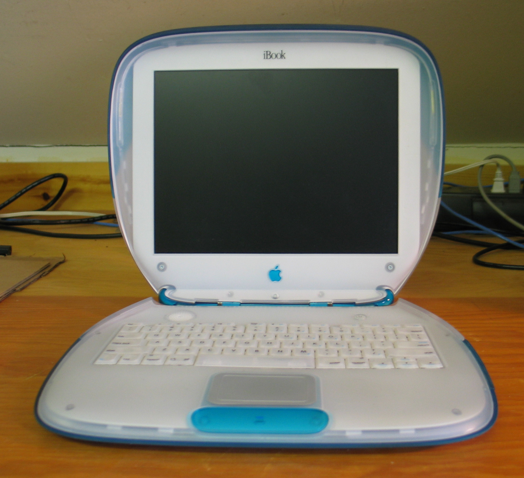 A "clamshell" iBook (color: Blueberry)